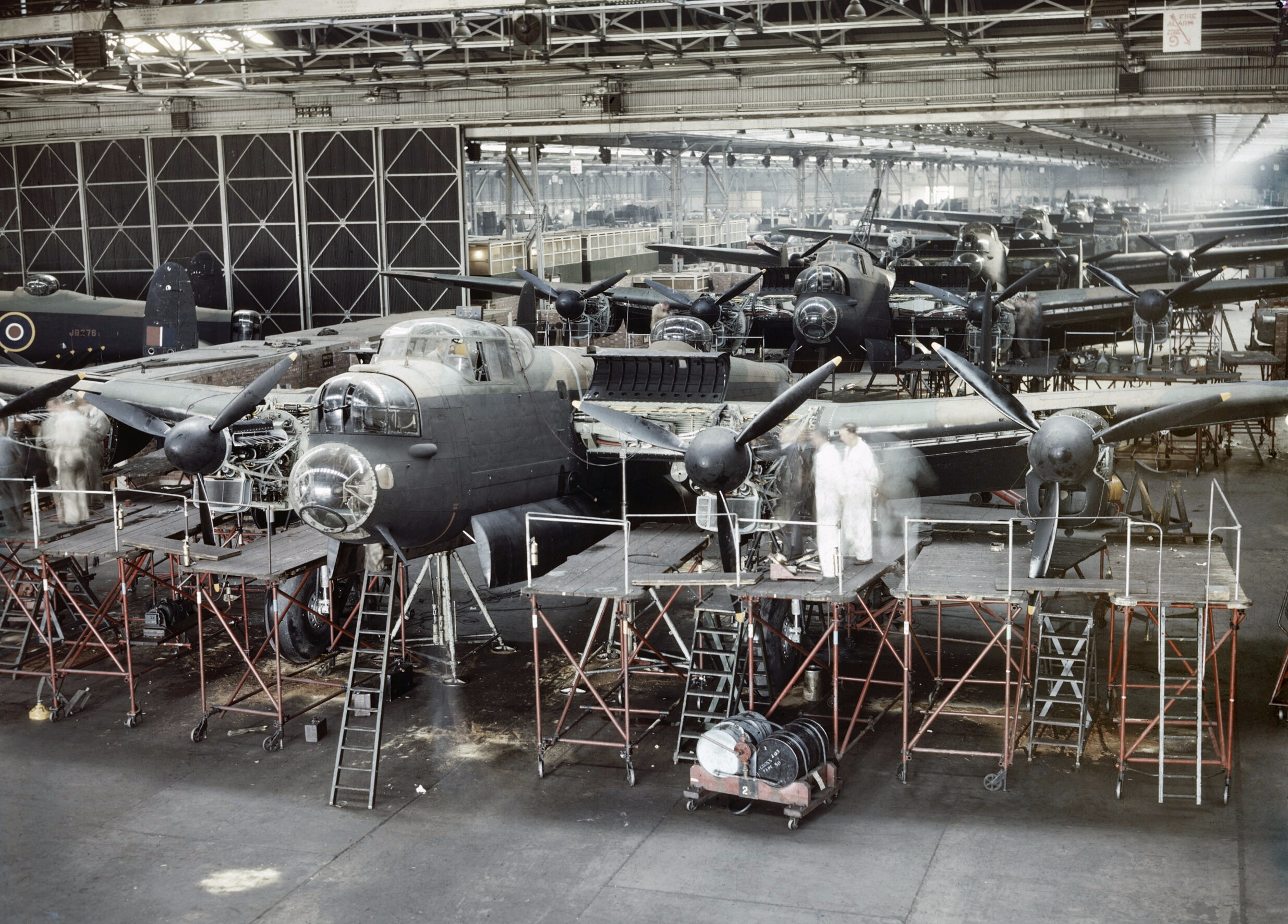 Avro Lancaster bombers nearing completion at the A V Roe & Co Ltd factory, Woodford, Cheshire